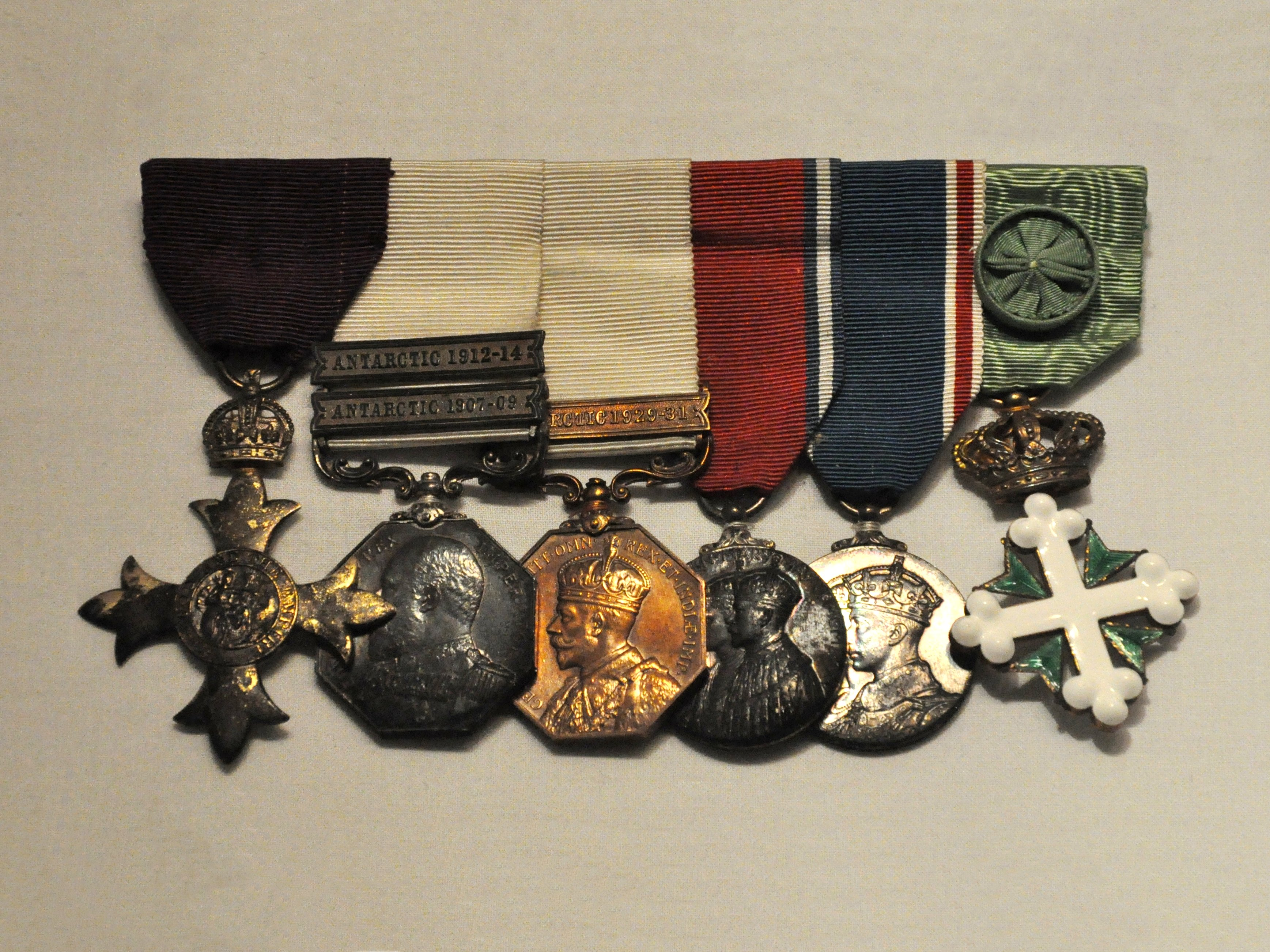 Sir Douglas Mawson, OBE, FRS, FAA (5 May 1882 – 14 October 1958) Medals in South Australian Museum.Source by .au The medal from the left: Order of British Empire,Polar Medal with 2 clasps, Polar medal, bronze with clasp, Silver Jubilee Medal 1935, Coronation Medal 1937, Commander of the Order of Crown of Italy.